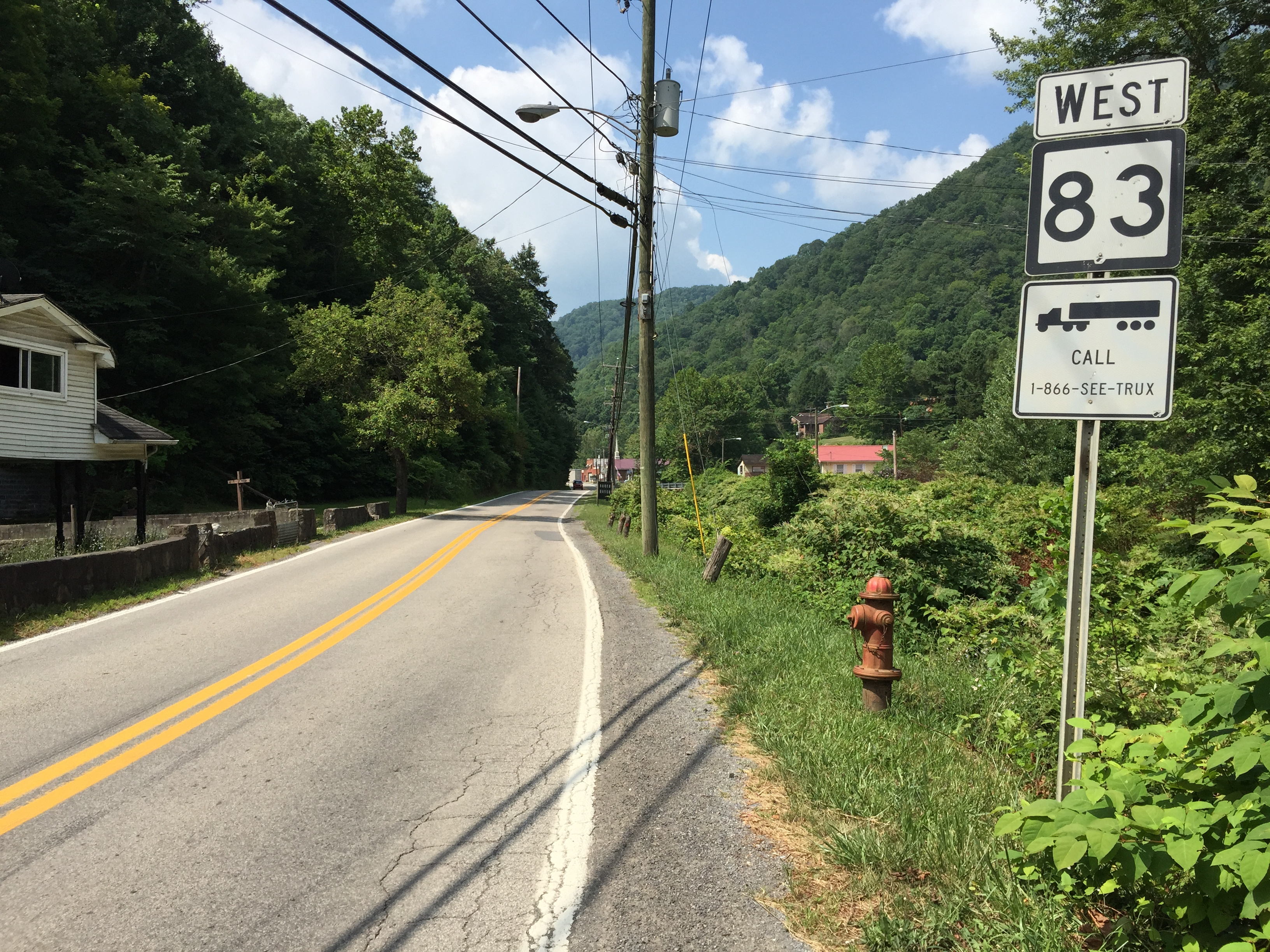 View west along West Virginia State Route 83 (Bartley Store Bottom Road) between Miners Street and Harrison Bottom Road in Bradshaw, McDowell County, West Virginia